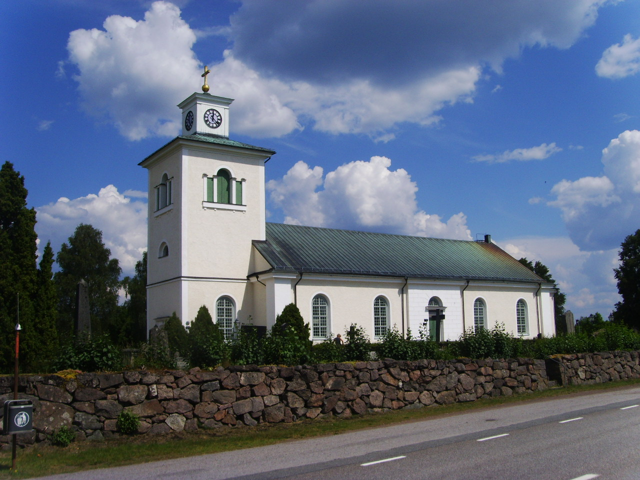 The church in Målilla-Gårdveda in Hultsfred, Sweden.